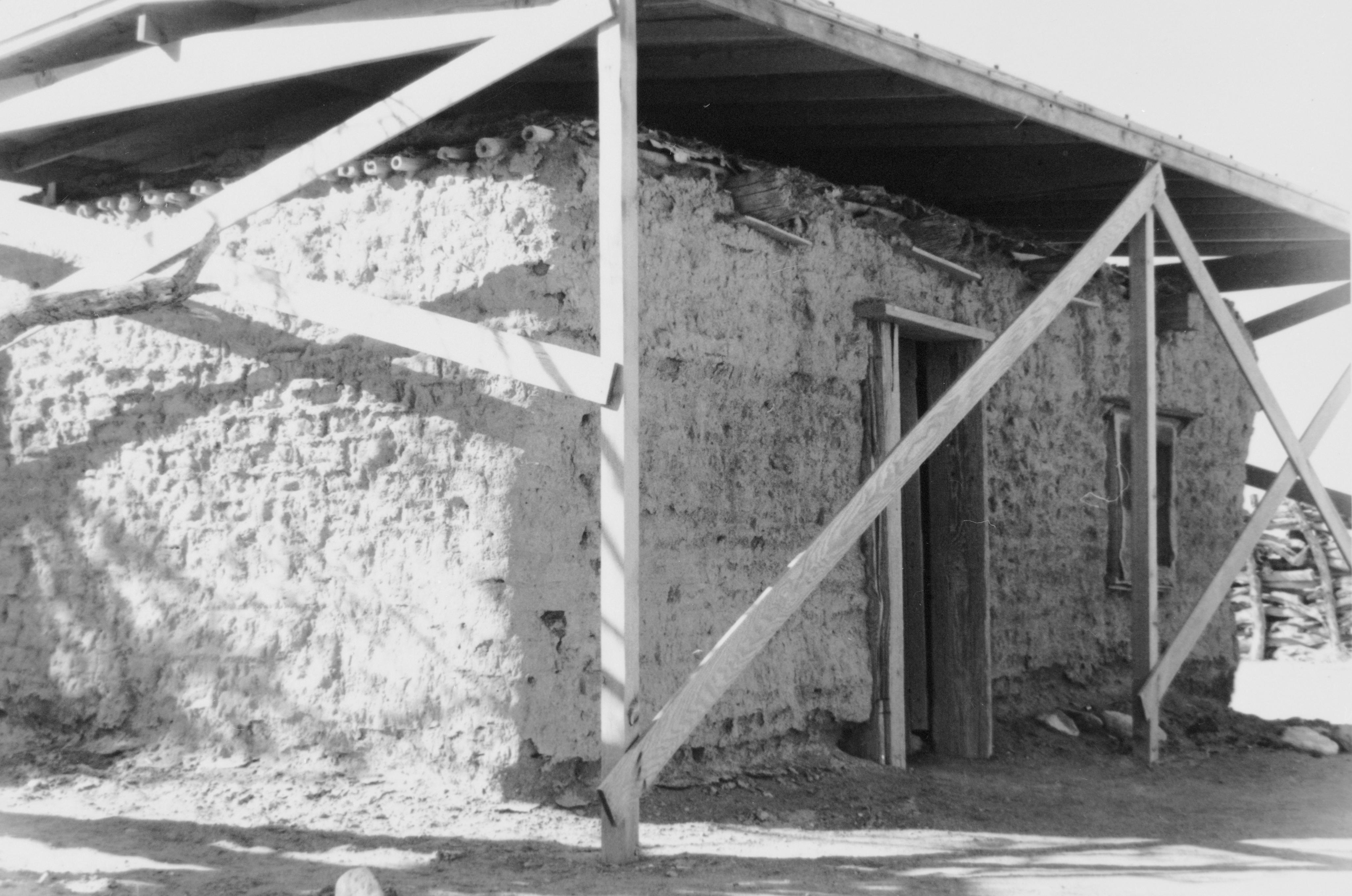 Front and side of the Gachado Well, located in the Organ Pipe Cactus National Monument east of Lukeville in Pima County, Arizona, United States. Built in 1917, the well building and related buildings are together listed on the National Register of Historic Places as the "Gachado Well and Line Camp".